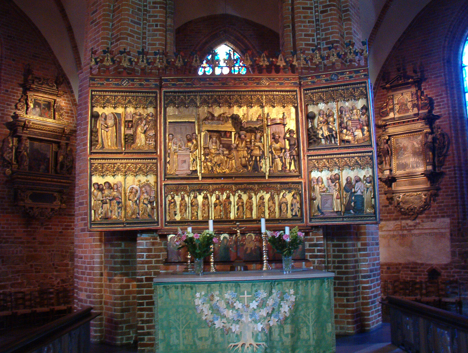 This is an image of the altar in Mariakyrkan, a church in central Helsingborg in Sweden Date:August 2004